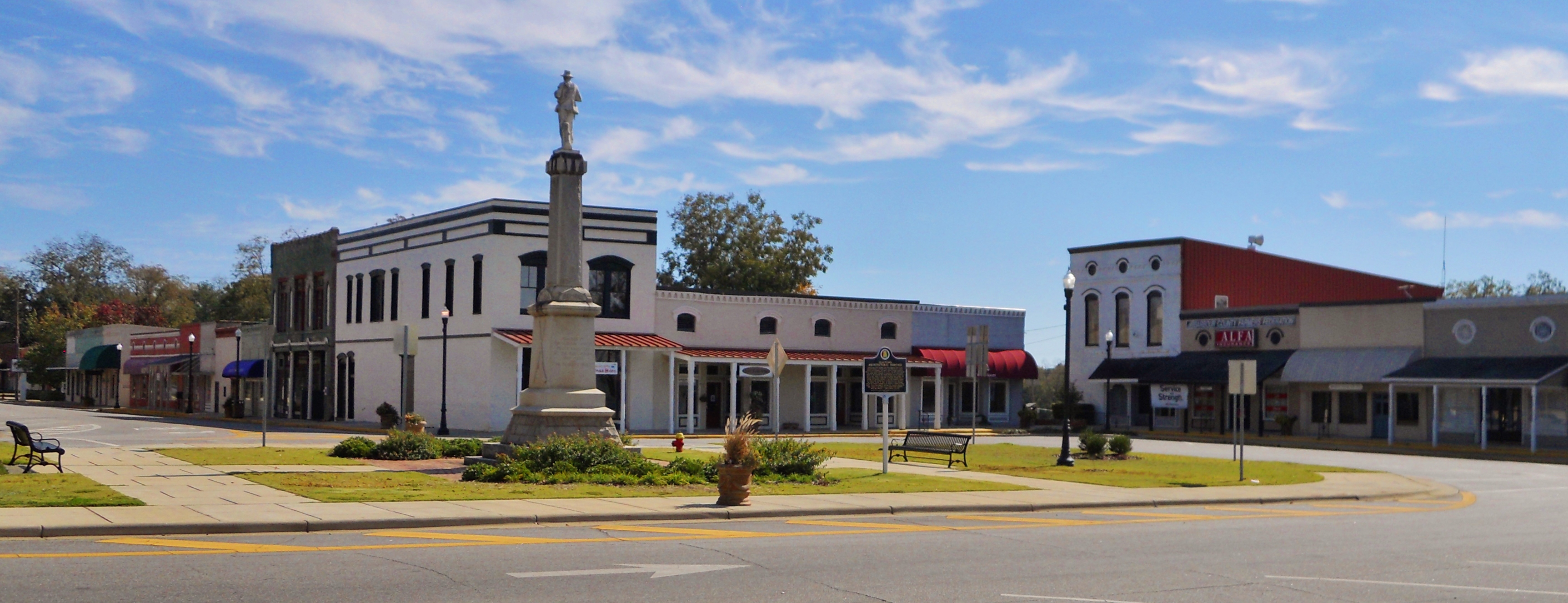 This is a photograph of the Barbour County Courthouse Square in Clayton, Alabama.